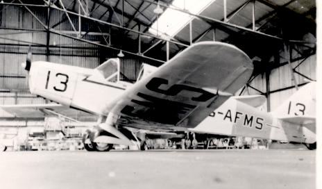 Moss M.A.2 G-AFMS at Blackpool (Squires Gate) airport